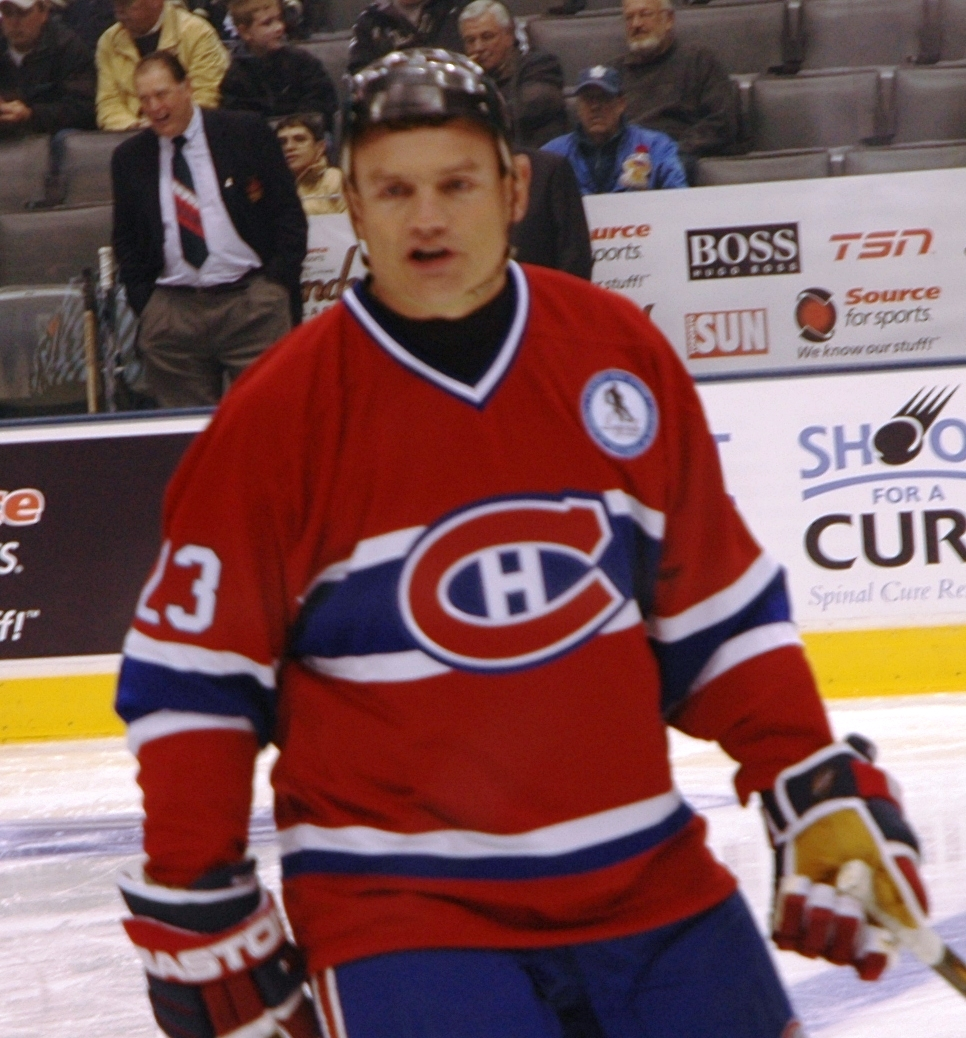 Brian_Bellows played with Montreal Canadiens Alumni at the Legends Clasic in Toronto